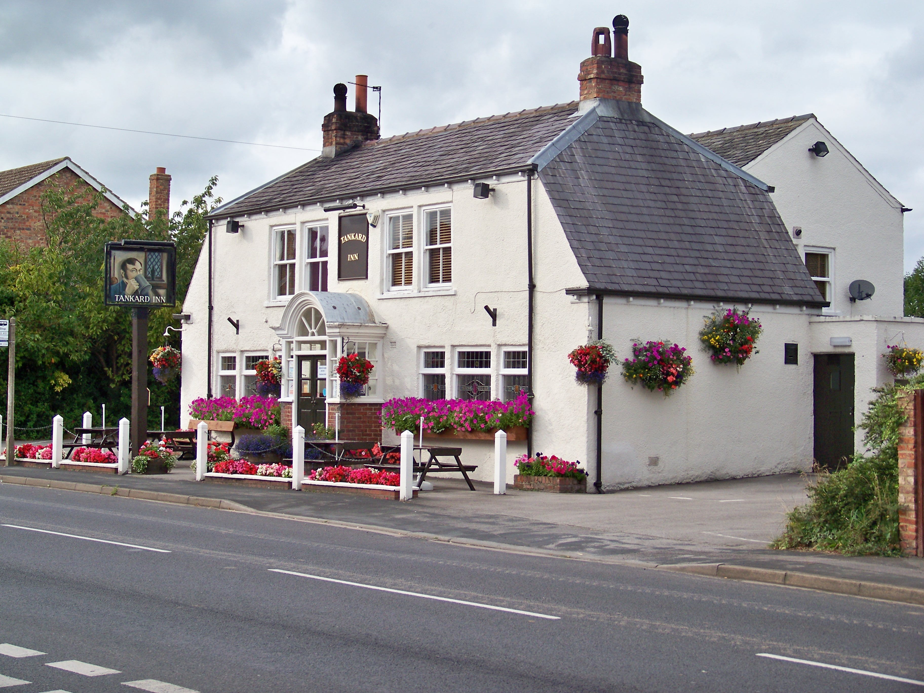 The Tankard Inn in Rufforth, North Yorkshire, England. The photograph was taken on the evening of Wednesday 12th August 2009.